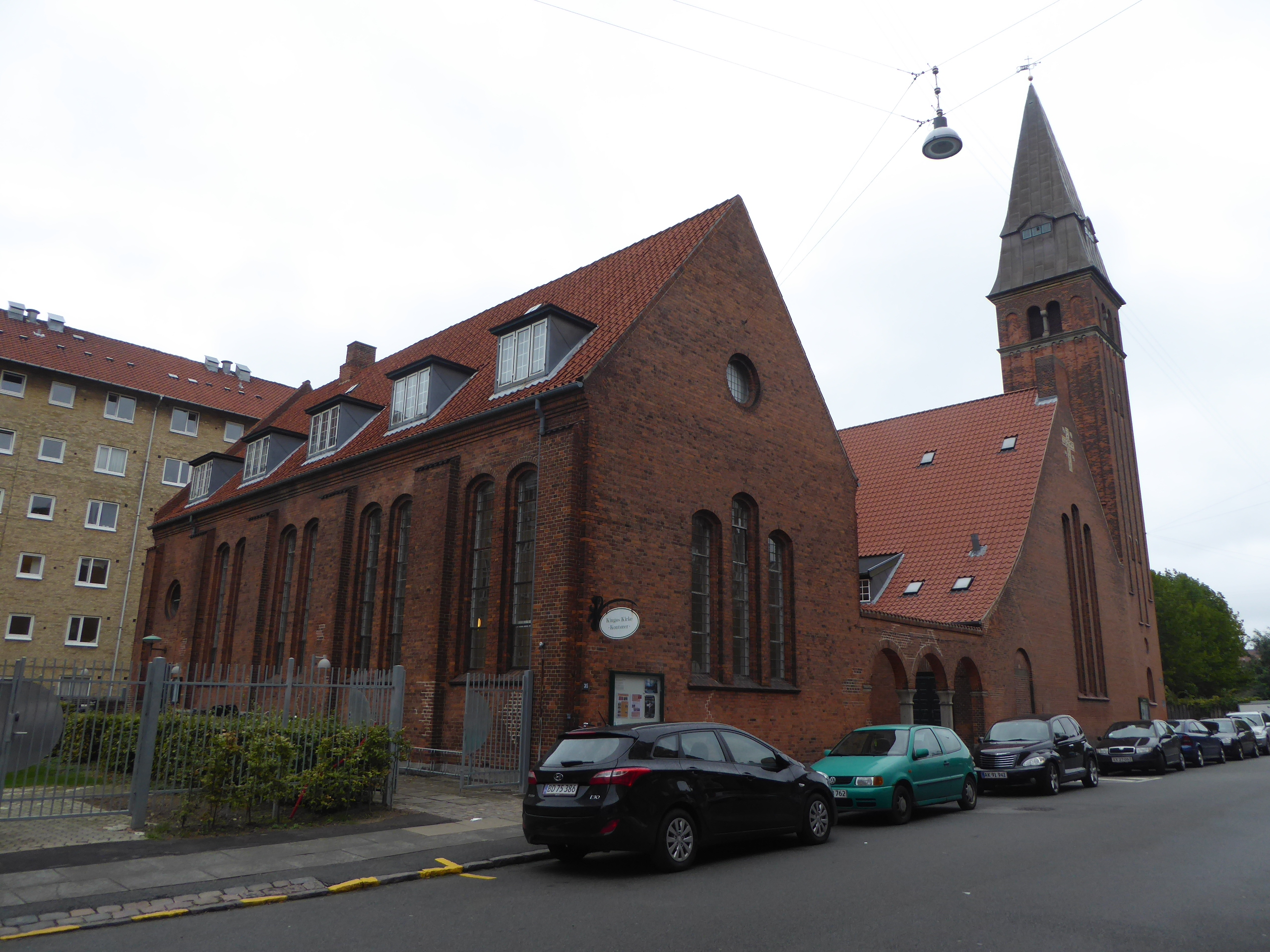 The church Kingos Kirke at Bragesgade in Nørrebro in Copenhagen.